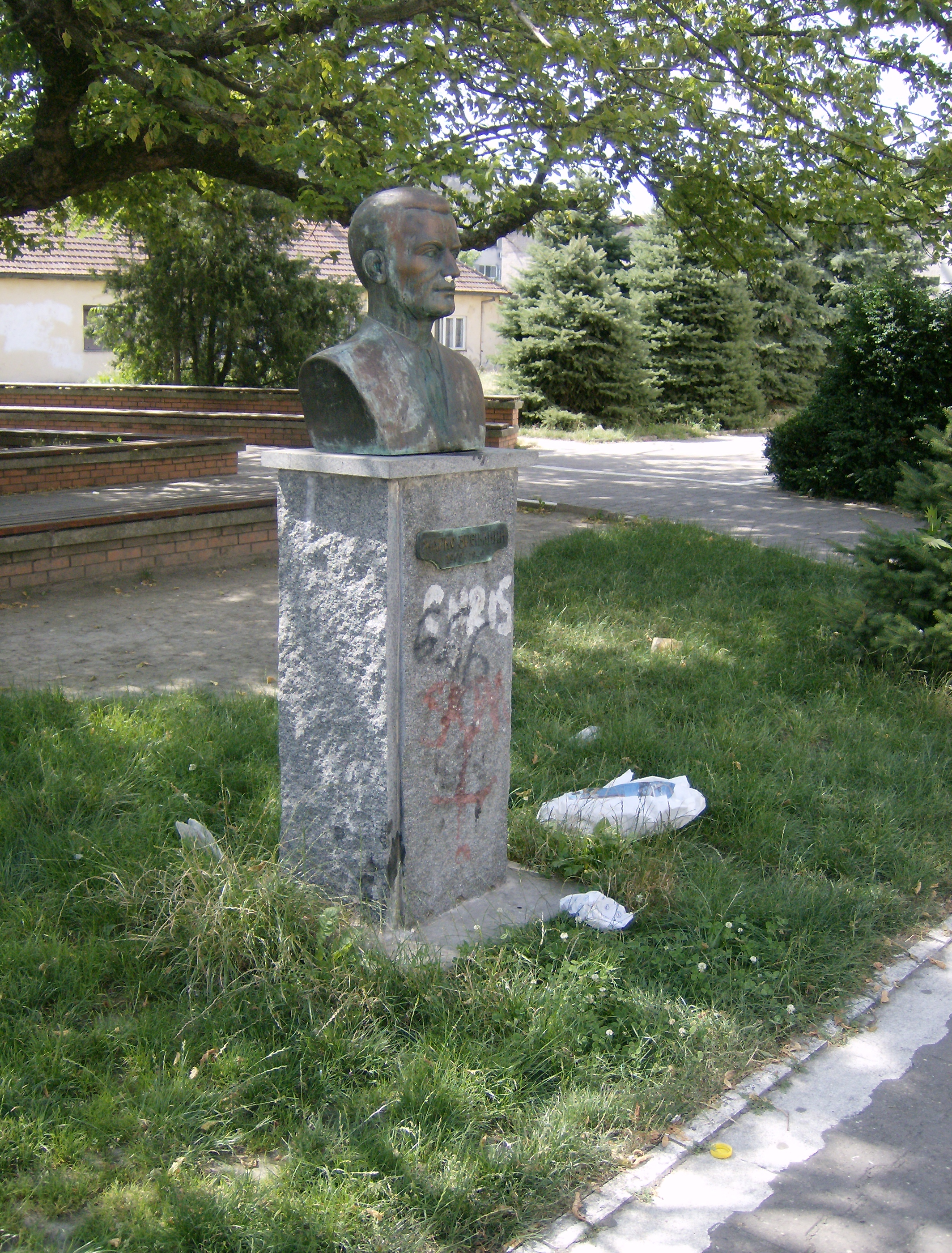 Žarko Zrenjanin bust in the courtyard of the Gymnasium